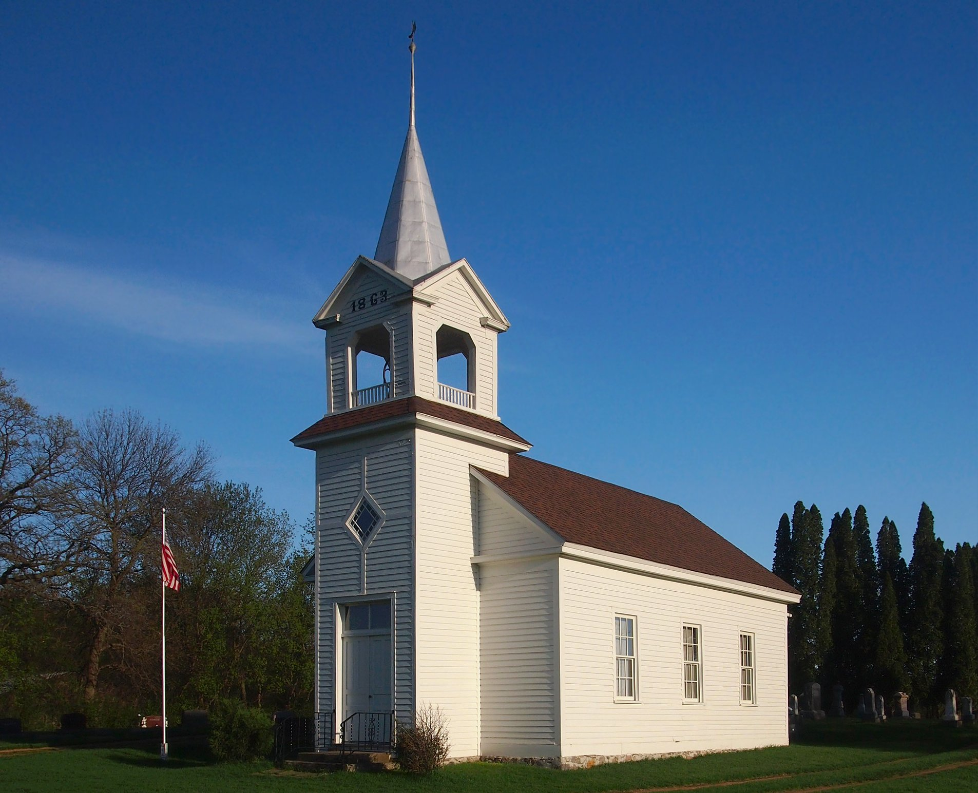 Zoar Moravian Church, 8265 County Highway 10, Laketown Township, Minnesota, USA. Viewed from the northwest.